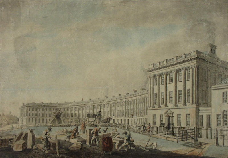 The completion of the Royal Crescent, Bath by Thomas Malton 1769